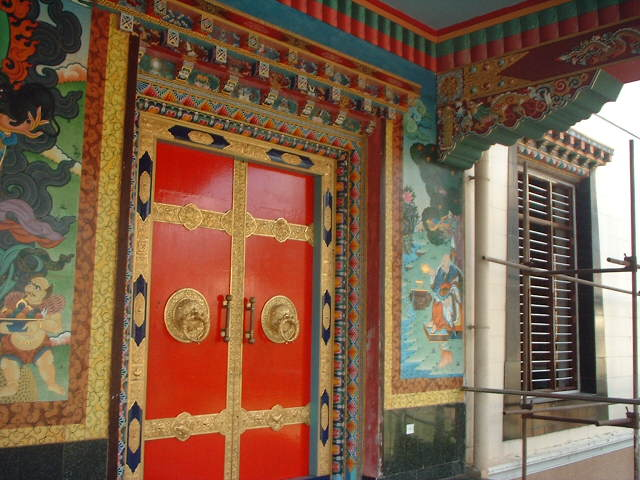 A decorated door from the Tibetan Namdroling monastery, southern India. Date: December, 2003